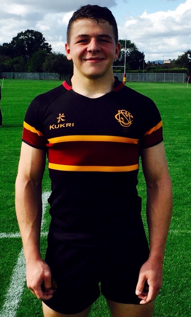 Daniel Roche having just played rugby.